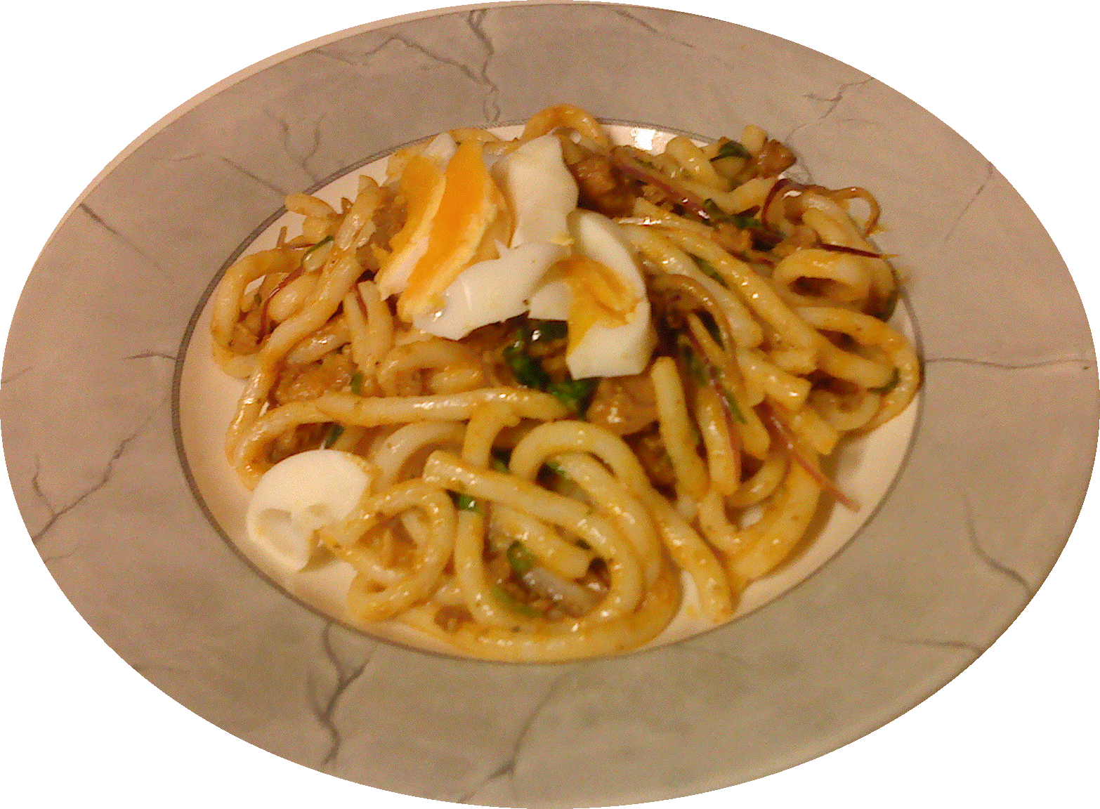 Burmese food dish